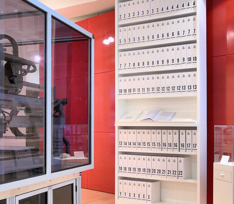 The first printout of the human genome to be presented as a series of books, displayed in the 'Medicine Now' room at the Wellcome Collection, London. The 3.4 billion units of DNA code are transcribed into more than a hundred volumes, each a thousand pages long, in type so small as to be barely legible.